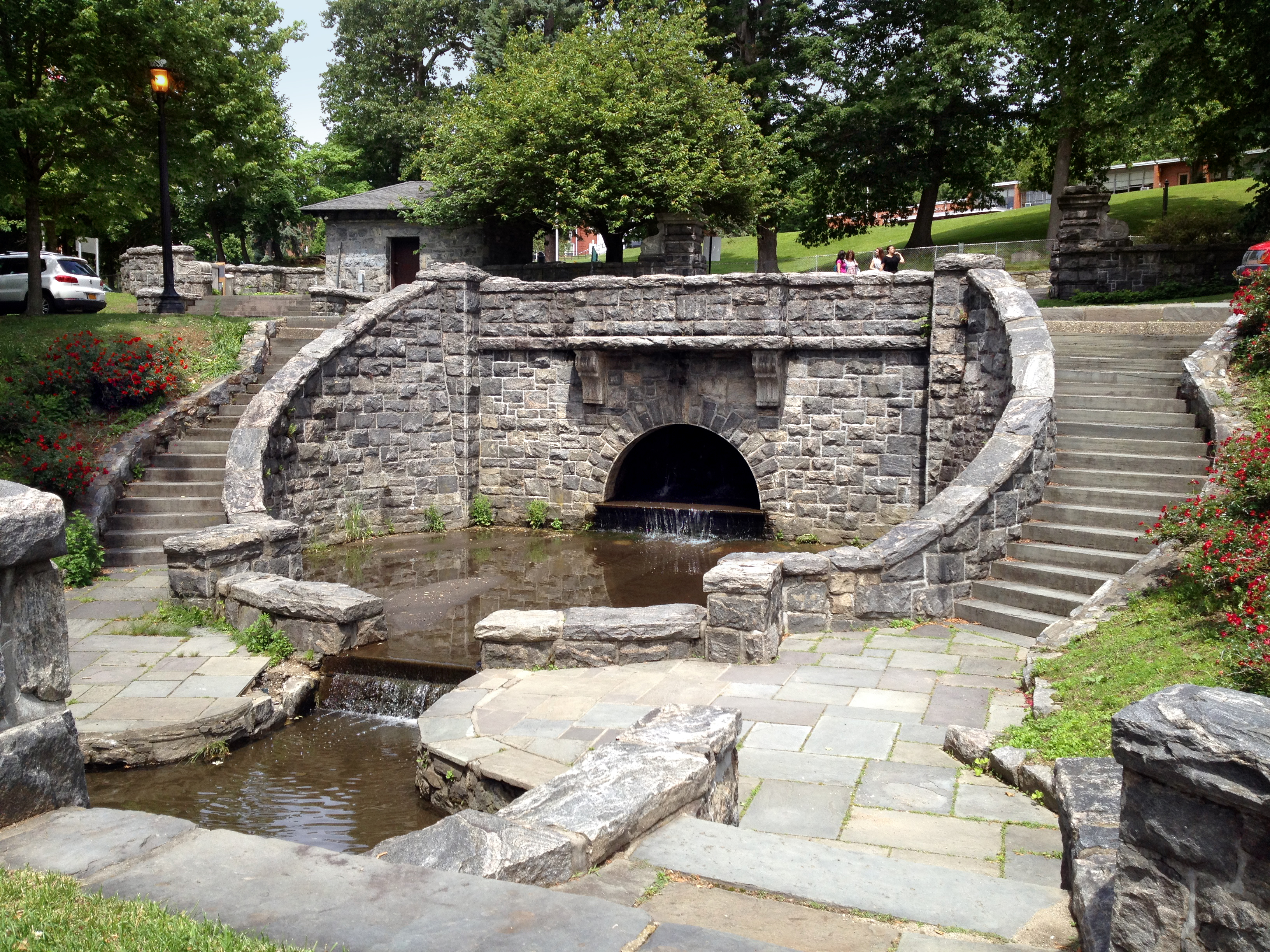 The uppermost (easternmost, closest to Route 9) of the stone bridges at Patriot's Park in Tarrytown, New York.